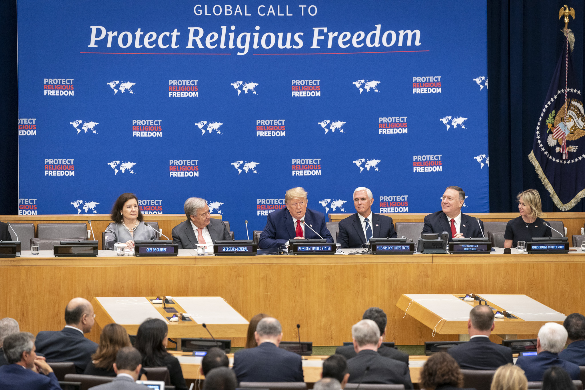 President Donald J. Trump delivers remarks at a United Nations event on Religious Freedom Monday, Sept. 23, 2019, at the United Nations Headquarters in New York City. (Official White House Photo by Shealah Craighead)